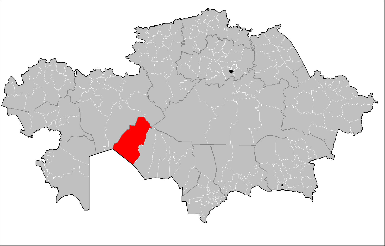 Map of the rayons of Kazakhstan. Created by Rarelibra 16:49, 3 August 2007 (UTC) for public domain use, using MapInfo Professional v8.5 and various mapping resources.